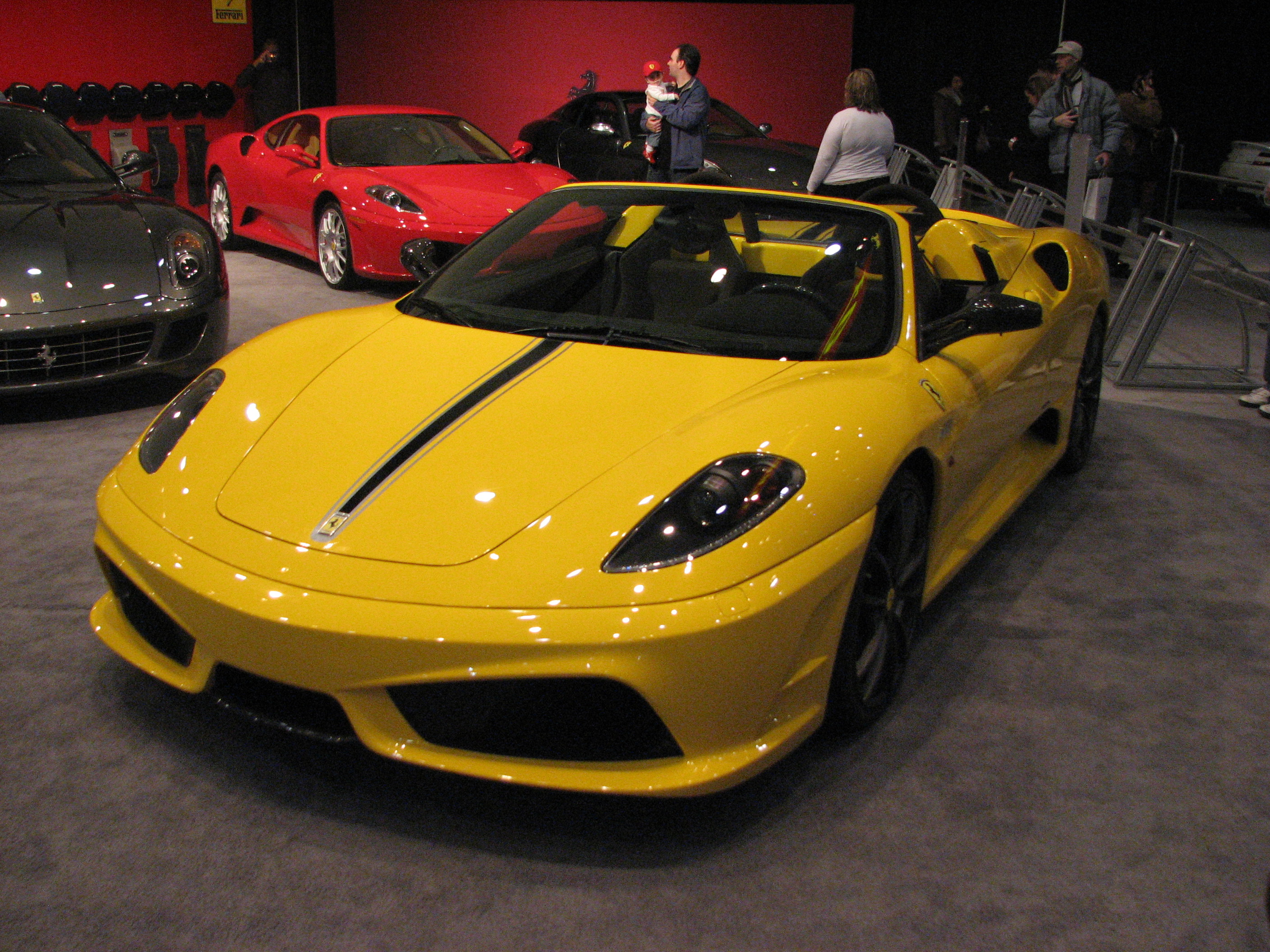 Ferrari 430 Scuderia 16M @ Toronto Auto Show